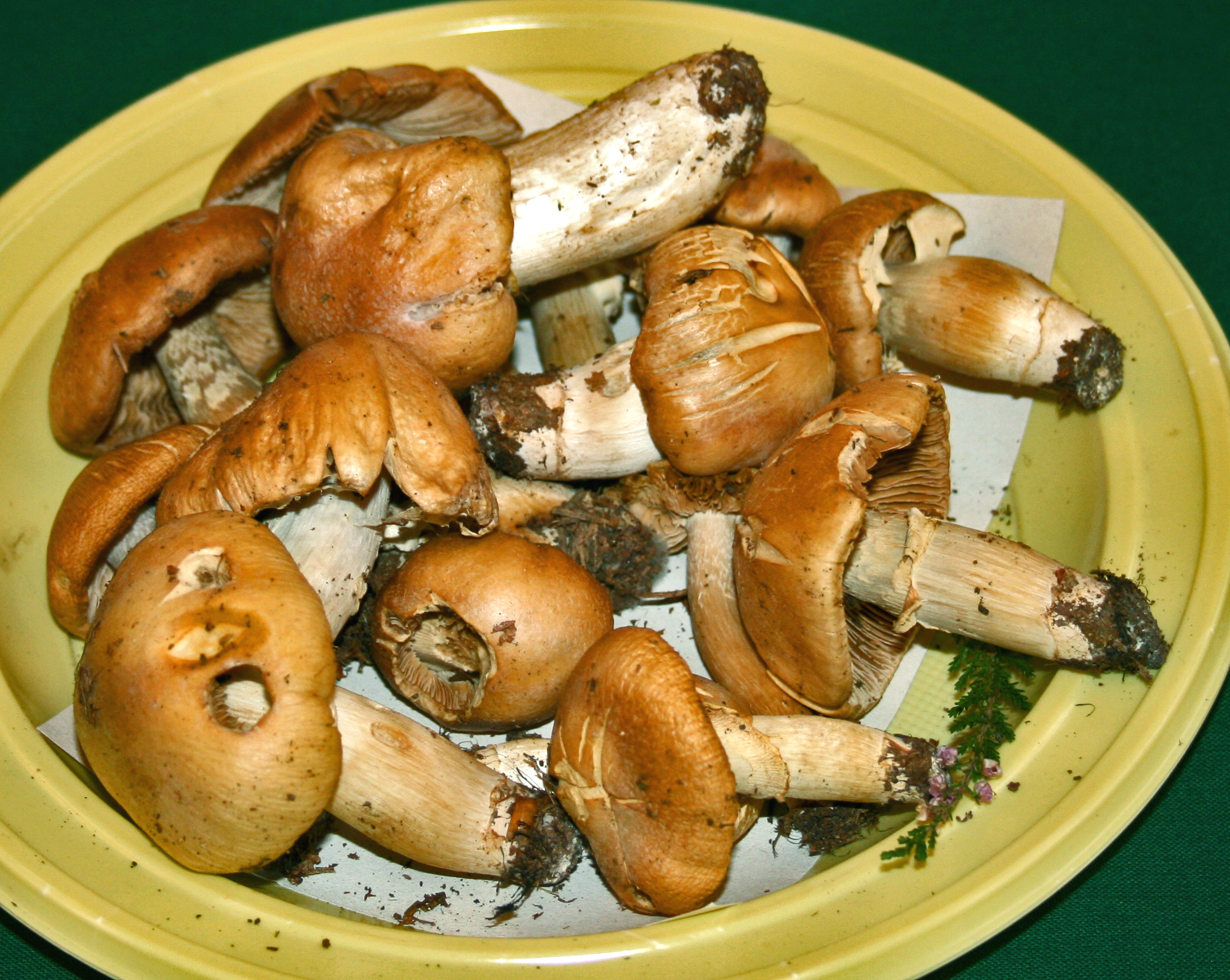 Rozites caperatus Rozites caperatus at the 12-th countrywide mushroom exhibition 2008, Žofín, Prague, Czech Republic